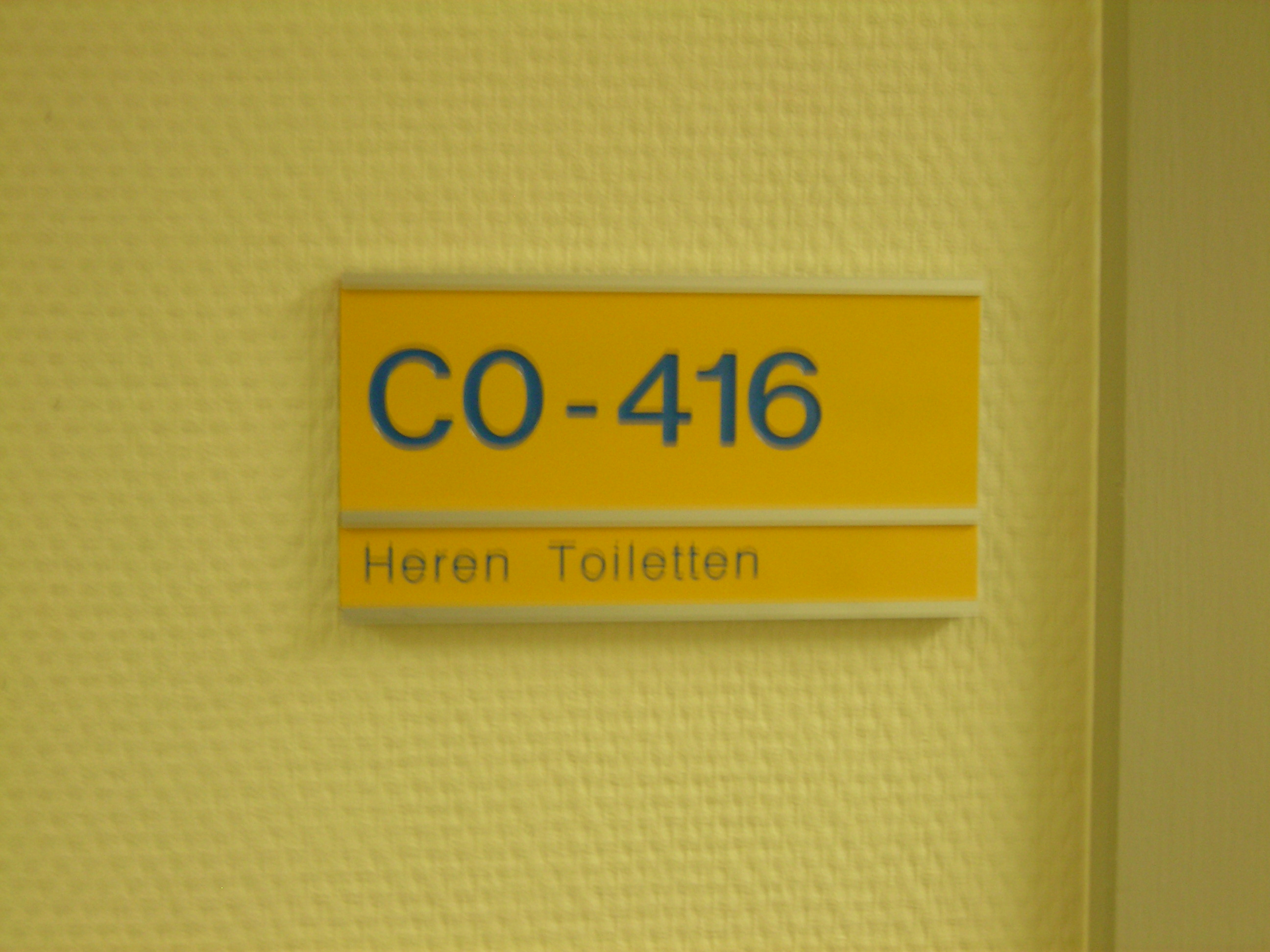 A sign in AMC Hospital (Amsterdam) with a grammatical error